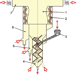 Principal scheme of air gravity classifier